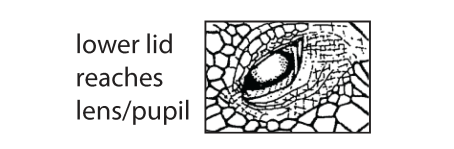 Standard Event System character depiction